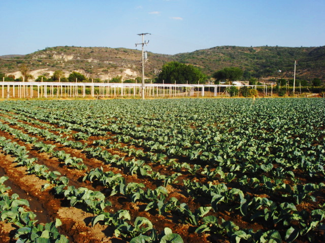 Cultivo de coliflor en Copándaro, Michoacán